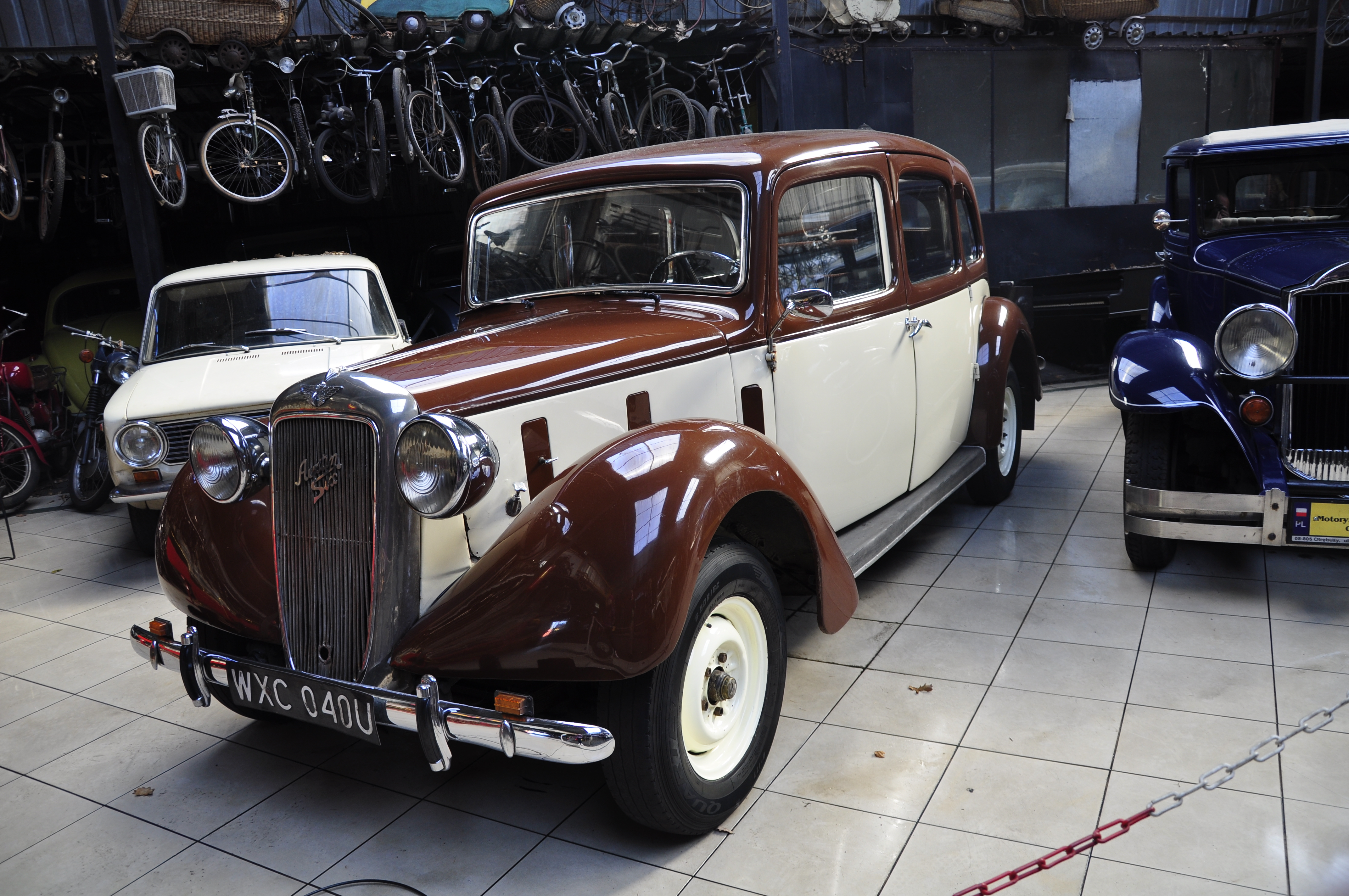 auto museum in Otrebusy, Poland (?) Austin 28 Ranelagh limousine announced August 1938